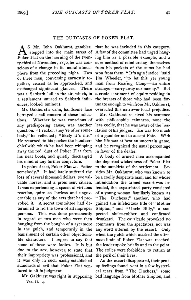 The first page of the short story "The Outcasts of Poker Flat" by American writer F. Bret Harte. As originally published in The Overland Monthly, January 1869. Scan by the Making of America Project.